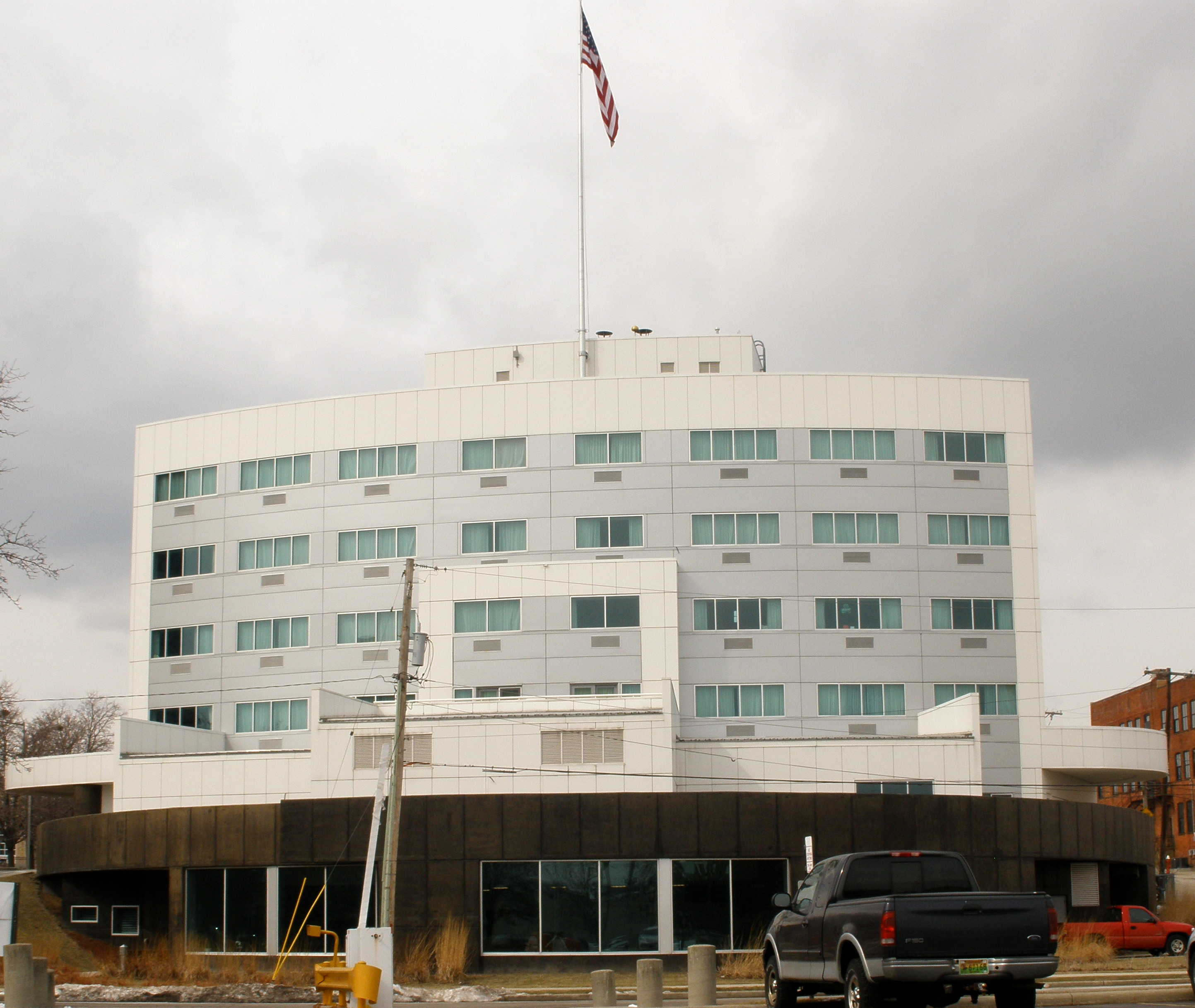 American Maritime Officers RTM-STAR Center in Toledo, Ohio.